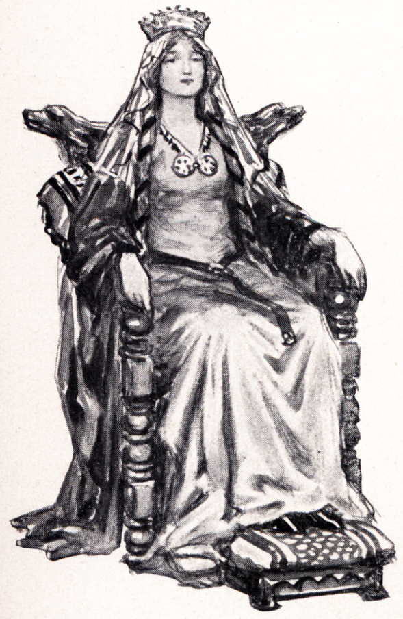 W. H. Margetson's illustration for Legends of King Arthur and His Knights by Janet MacDonald Clark.